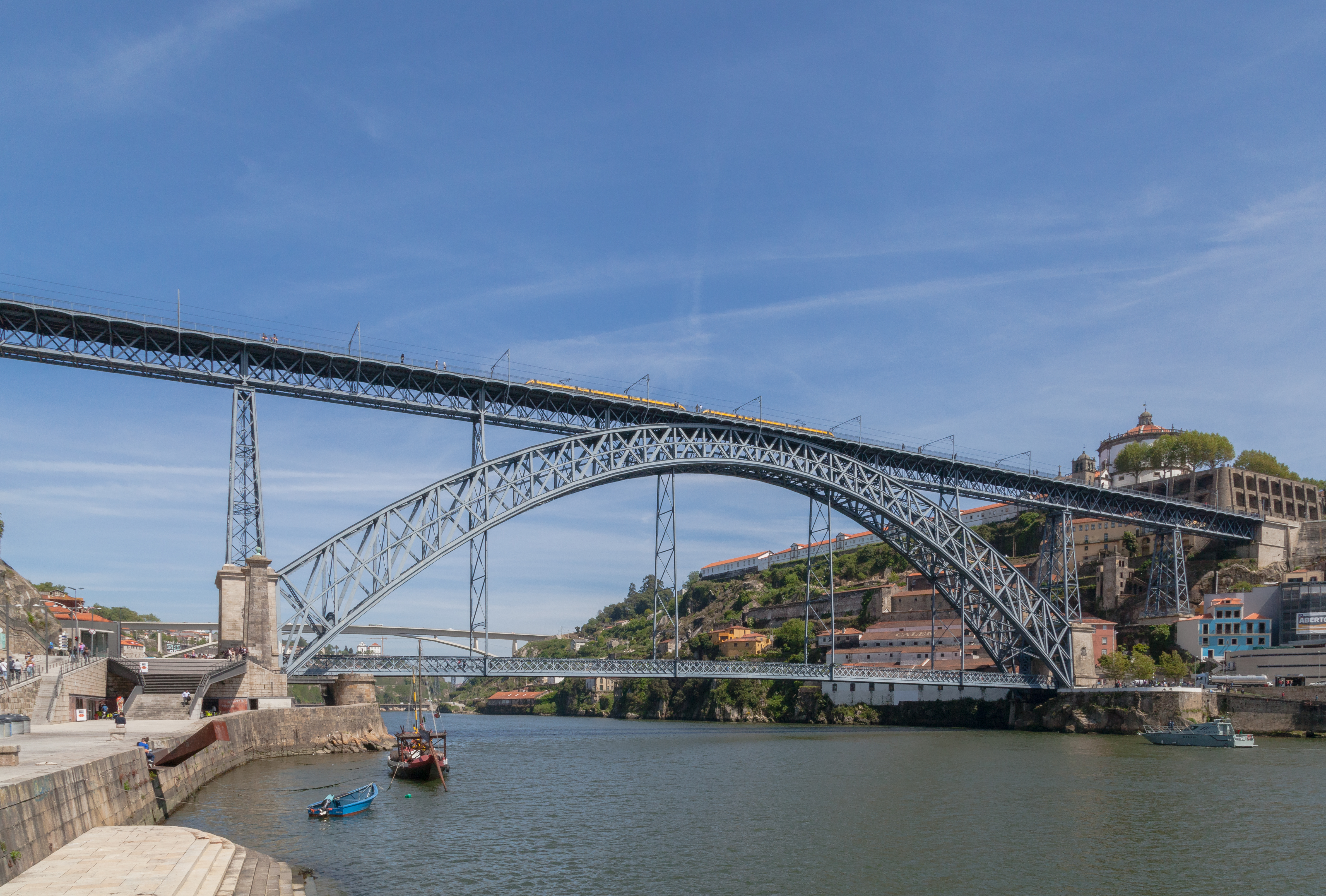 Dom Luis I bridge, Porto, Portugal